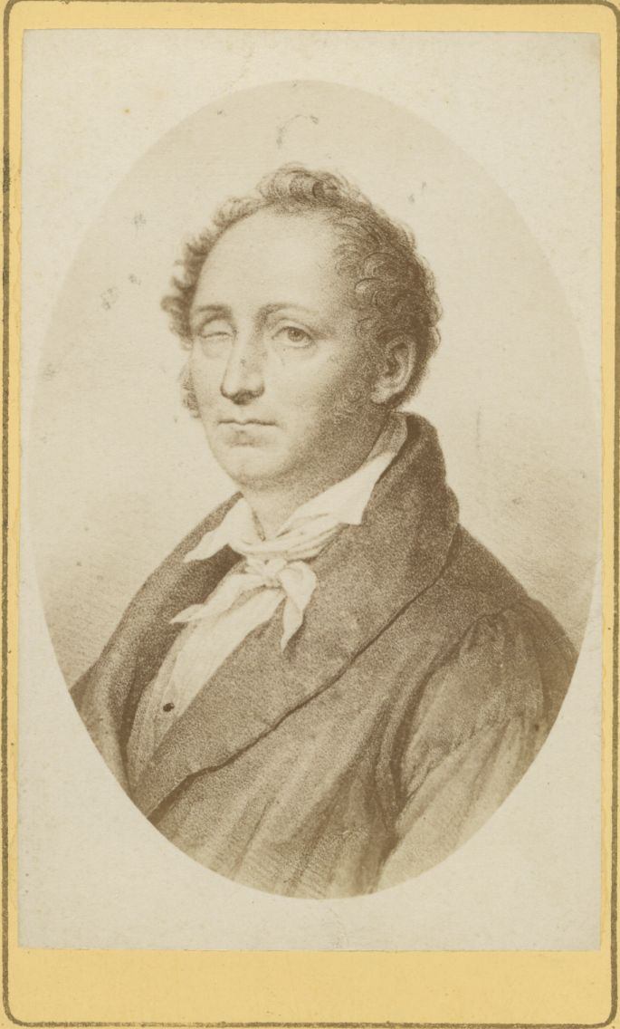 Artist: Unknown Date/place: Unknown Subject: Friedrich Kuhlan Medium: Photographic reproduction of a painting Notes: Danish - German composer. Born in Uelzen 11.09. 1786 - dead in Copenhagen12.09. 1832 Original belongs to the Archives at [#//bergenbibliotek.no/digitale-samlinger” Bergen Public Library]